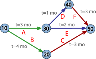 PERT Chart. Drawn in Adobe Illustrator - inspired by a chart at . Created by Jeremy Kemp. 2005/01/11